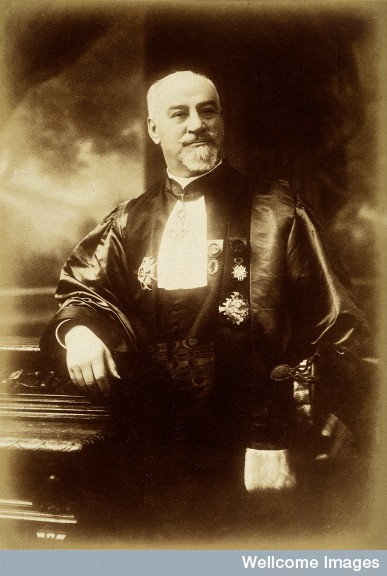 V0028180 Philibert Maurice D'Ocagne. Photograph by G.L. Manuel. Credit: Wellcome Library, London. Wellcome Images Philibert Maurice D'Ocagne. Photograph by G.L. Manuel. Published: - Copyrighted work available under Creative Commons Attribution only licence CC BY 4.0